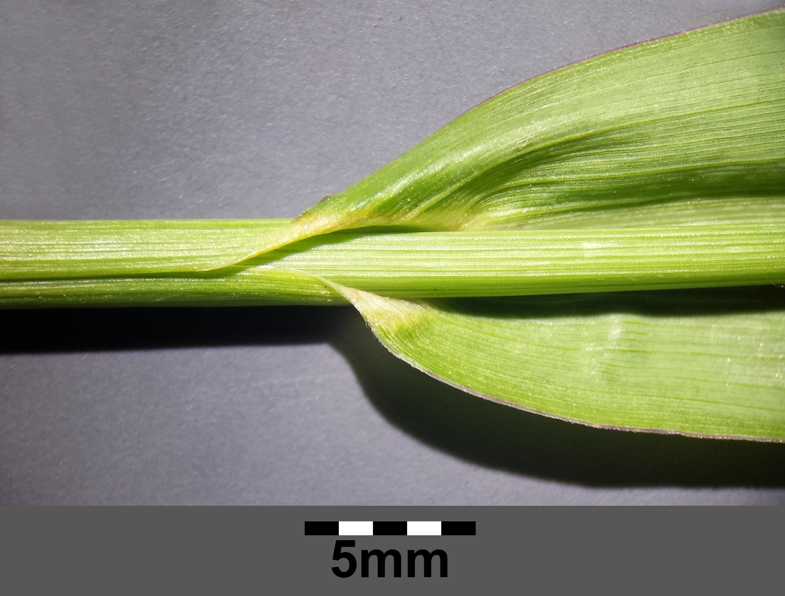 Stipe with leaf Taxonym: Echinochloa crus-galli ss Fischer et al. EfÖLS 2008 ISBN 978-3-85474-187-9 Location: between Michelberg and Steinberg near Niederhollabrunn, district Korneuburg, Lower Austria - ca. 350 m a.s.l. Habitat: field